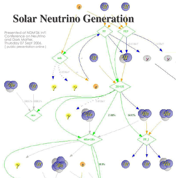 Snapshot of a public description of proton-proton and electron-capture chain reactions in a star.